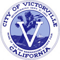 Seal of the city of Victorville, California